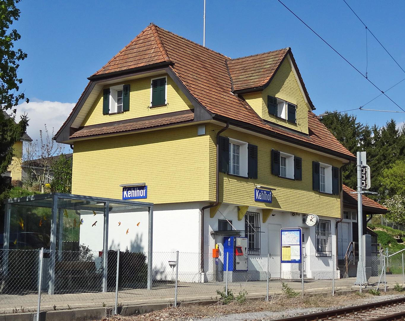 "Kehlhof" railway station in Berg TG, Switzerland